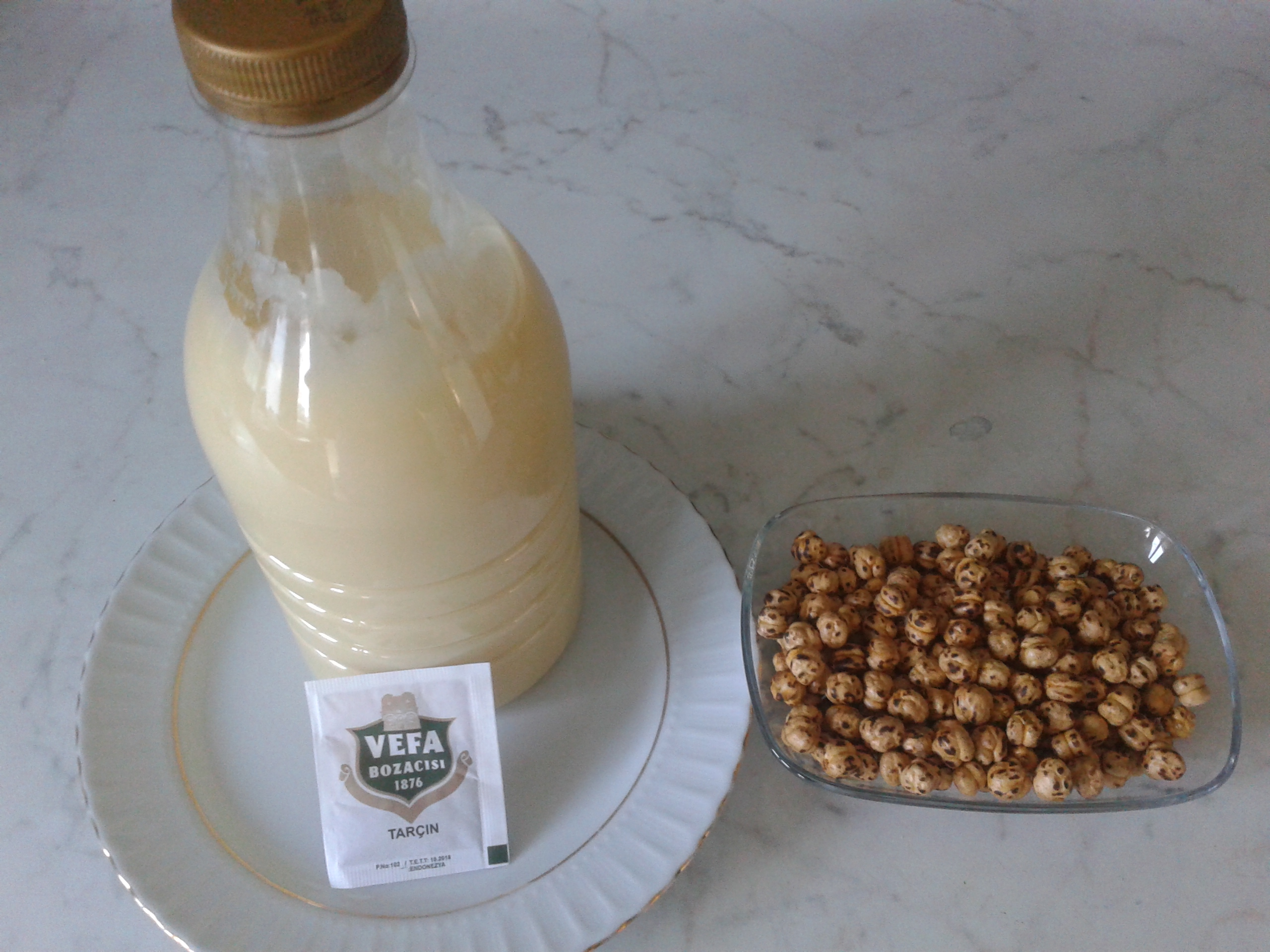 "Boza" and "leblebi" in Ankara. When winter approaches, boza season begins in Ankara. The traditional producers in this city (Akman Pastanesi) seem to have disappeared, losing an impossible war against industrial beverages. This boza comes from Istanbul, from the Historical "Vefa Bozacısı" brand, which has adapted itself to the times and given its name to an industrial company, although I believe, they also continue small-scale traditional production in their hometown in Istanbul. This plastic bottle of boza comes with a little envelope with cinnamon, tied to the neck of the bottle, so that we do not forget to pour it on the boza. The other indispensable food to consume together with boza is leblebi. Traditions...